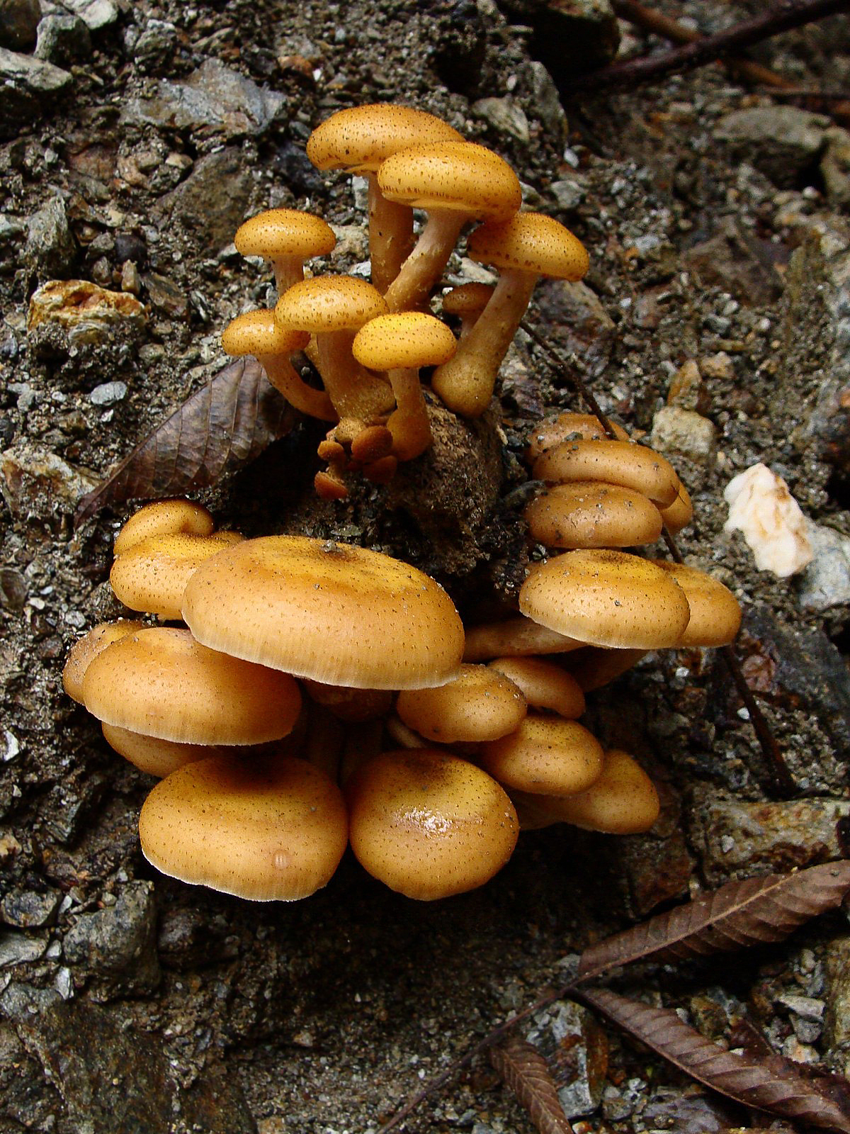 ナラタケ（青森県大鰐町三ツ目内） Camera Details: Sony Cyber-shot DSC-H3